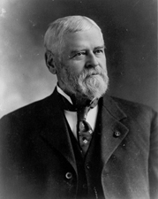 Portrait of Senator Julius Caesar Burrows of Michigan